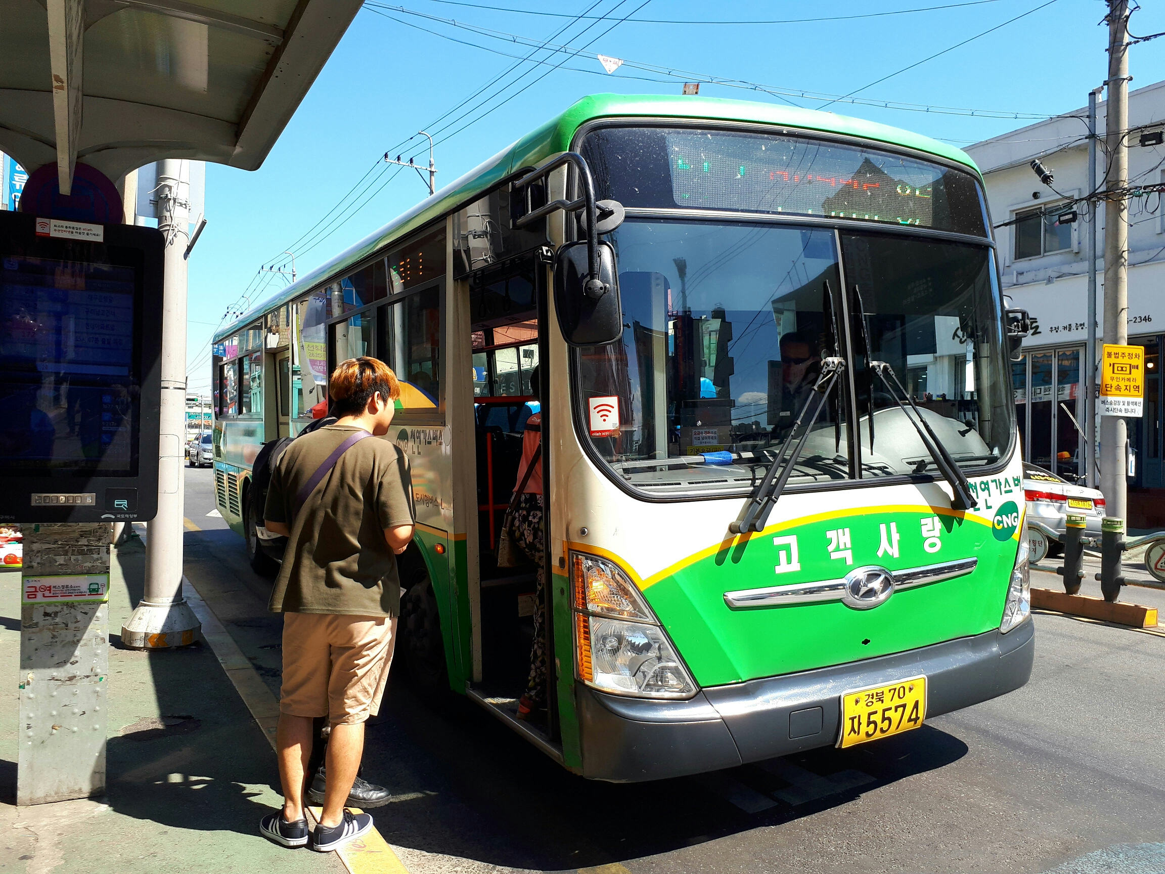 Gumi City Bus at Gumi Station(Jung-ang Market) Bus Stop